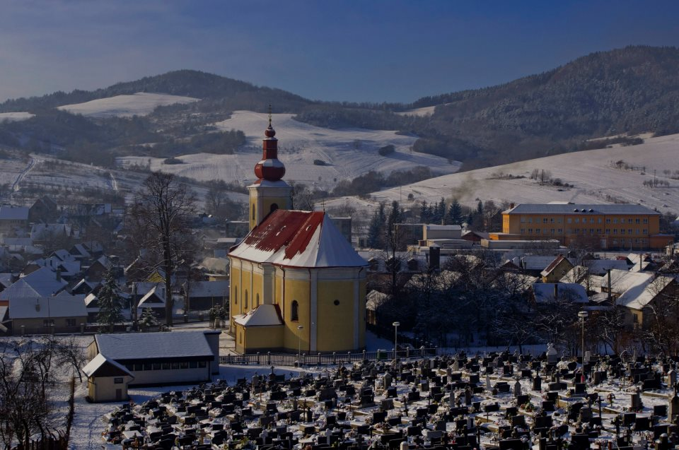 Papradno in winter